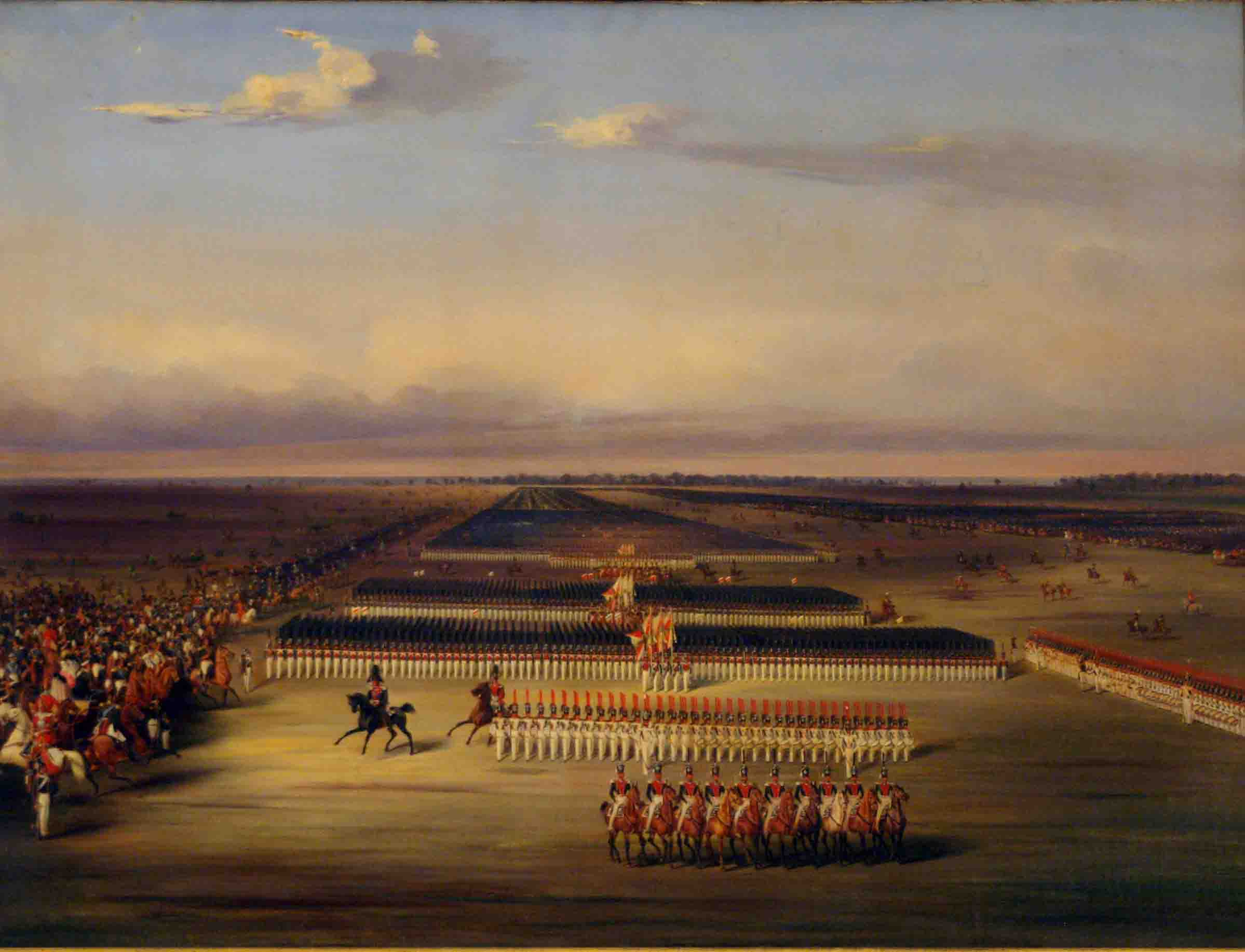 Prussian troops at the maneuver of Kalisch in 1835, painting by Carl Rechlin